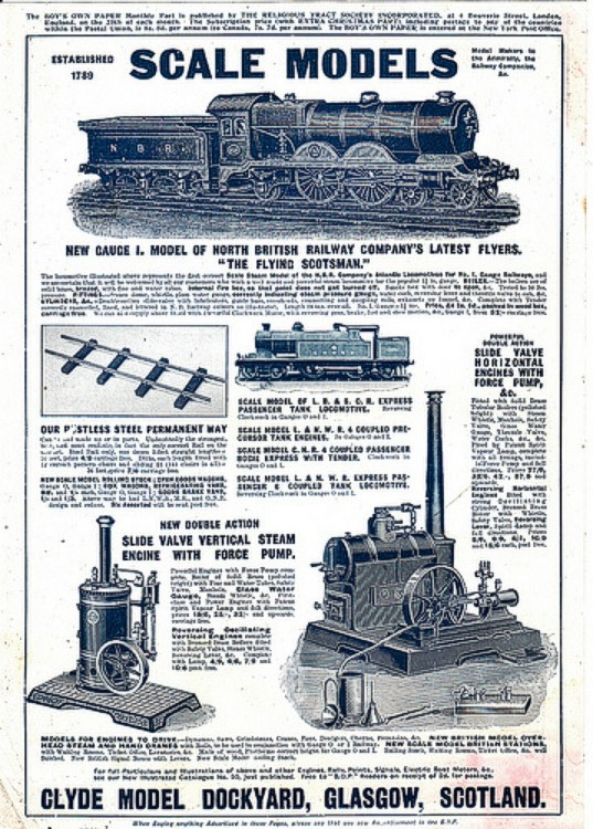 Catalogue page from the January 1914 edition of 'The Boys Own' Vol XXXVl Part 3